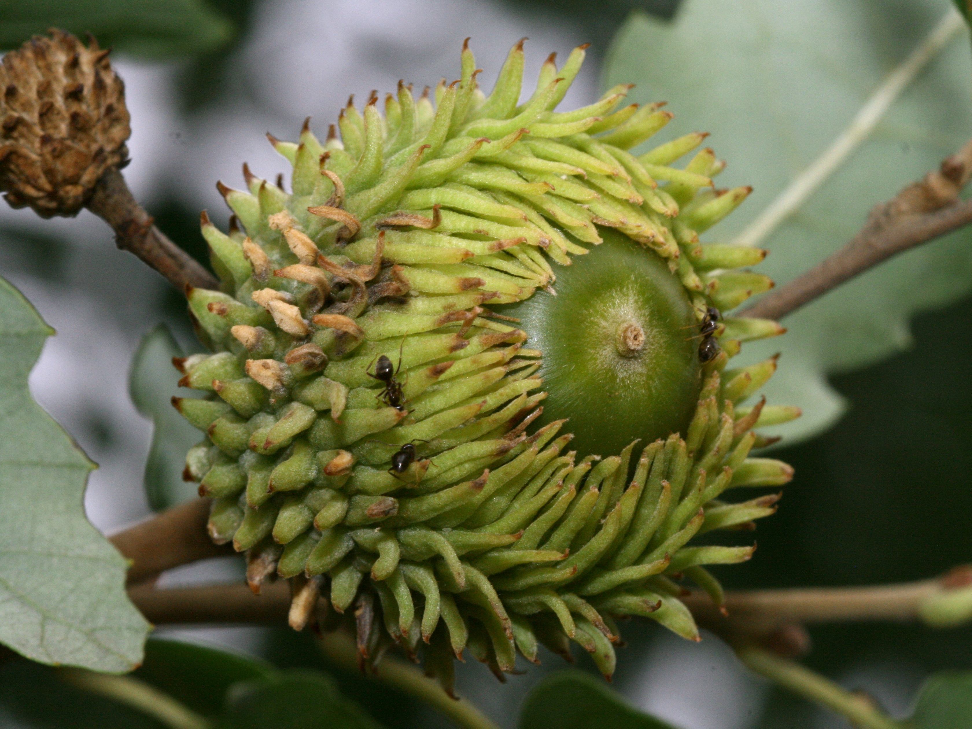 Acorn of Quercus libani, Arboretum in Brno, Czech Republic